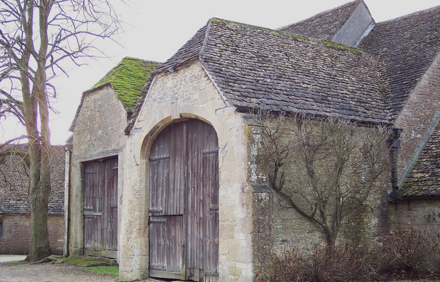 Barn Doors at Great Chalfield Manor Grade I listed barn. The north bay was built in the 17th century and the 5-bay barn to the south is dated 1752. Part of the barn is now used as a squash court.